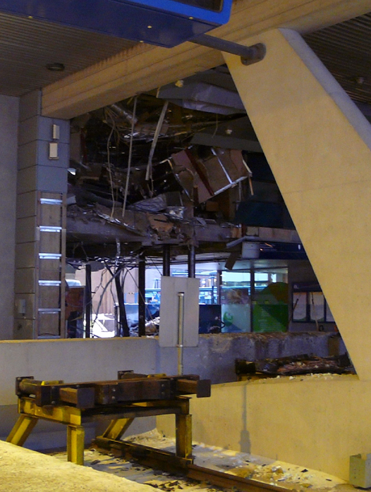 A situation on the following day of a train accident at Helsinki Central railway station which happened in January 4th, 2010. So the picture has been taken in evening in January 5th, 2010.